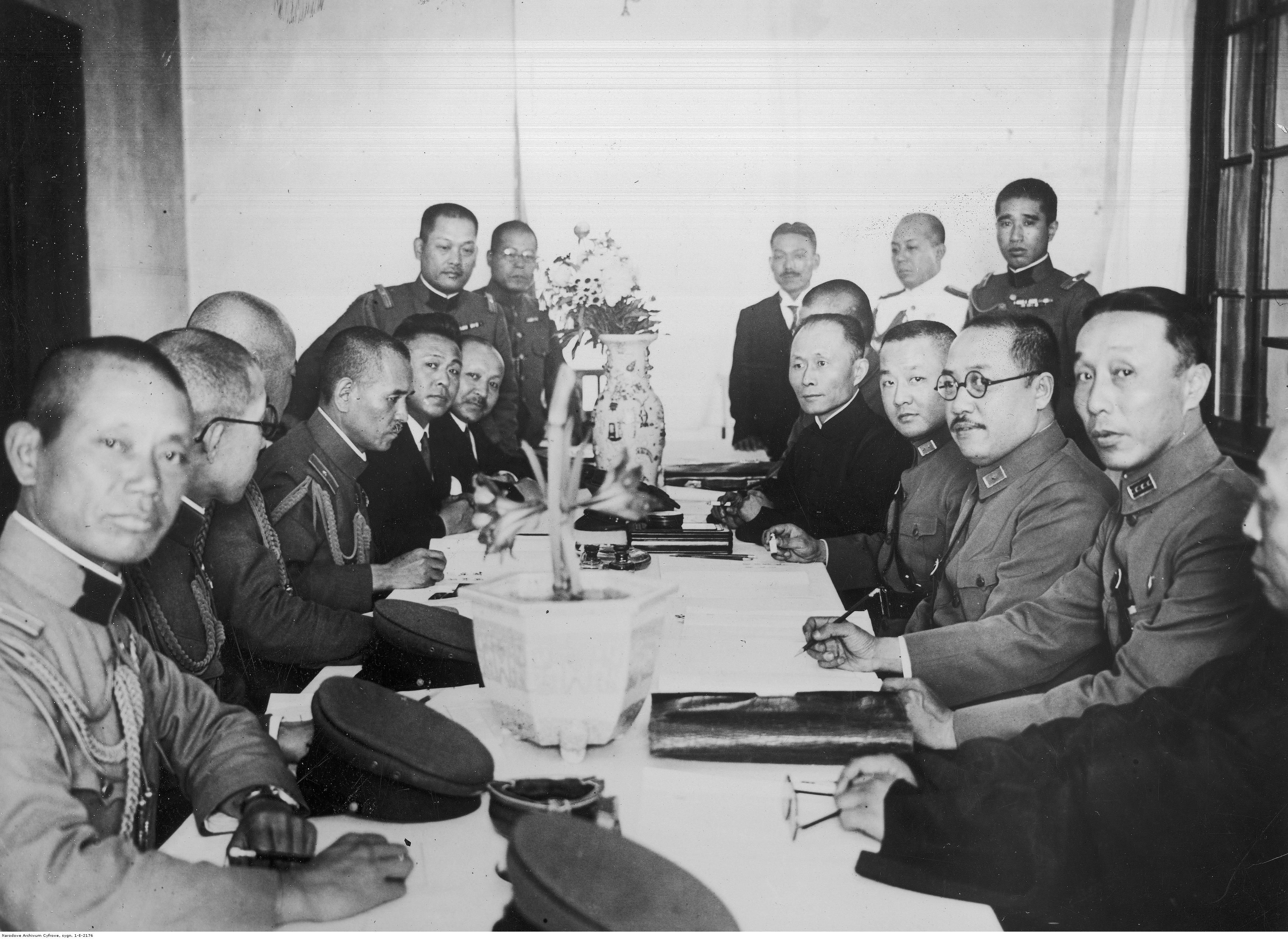 Tanggu Treaty